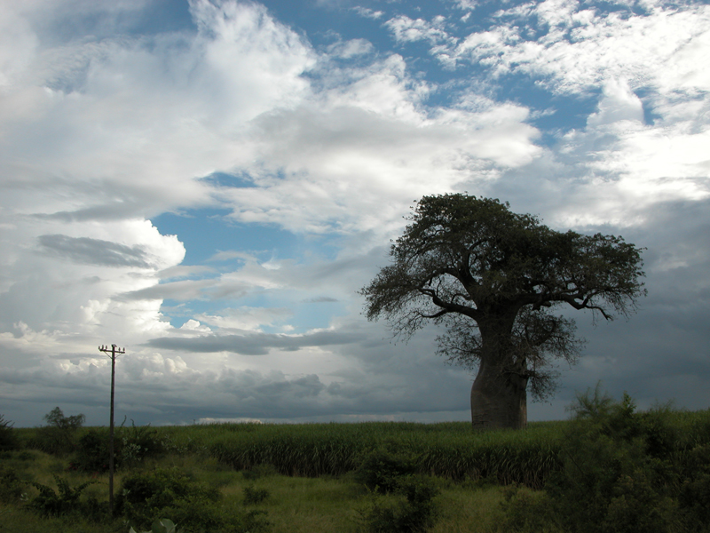 Baobab tree (about 25m high) near Chikwawa (Malawi). A field of sugar cane is visible around it.